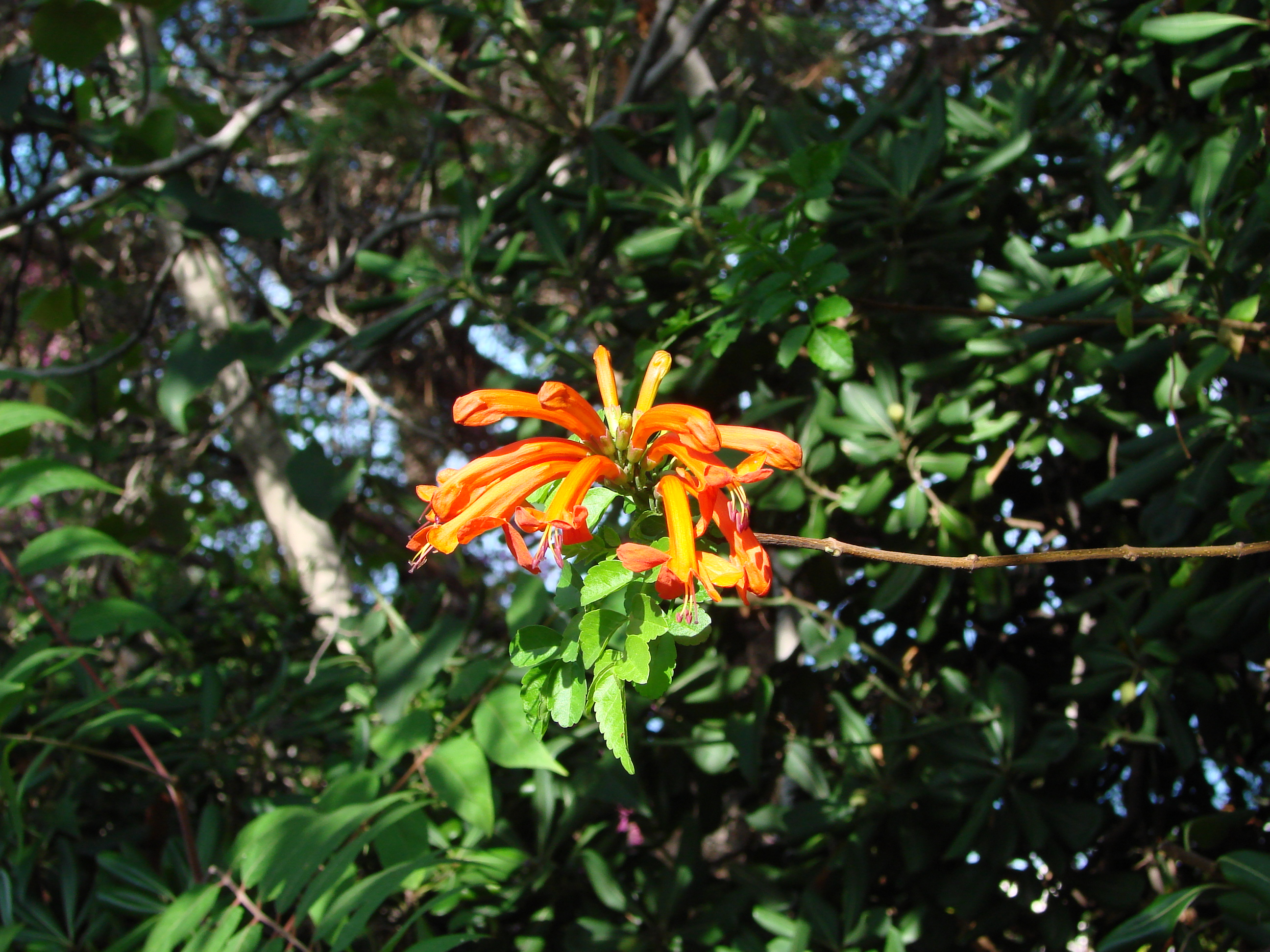 Cape Honeysuckle